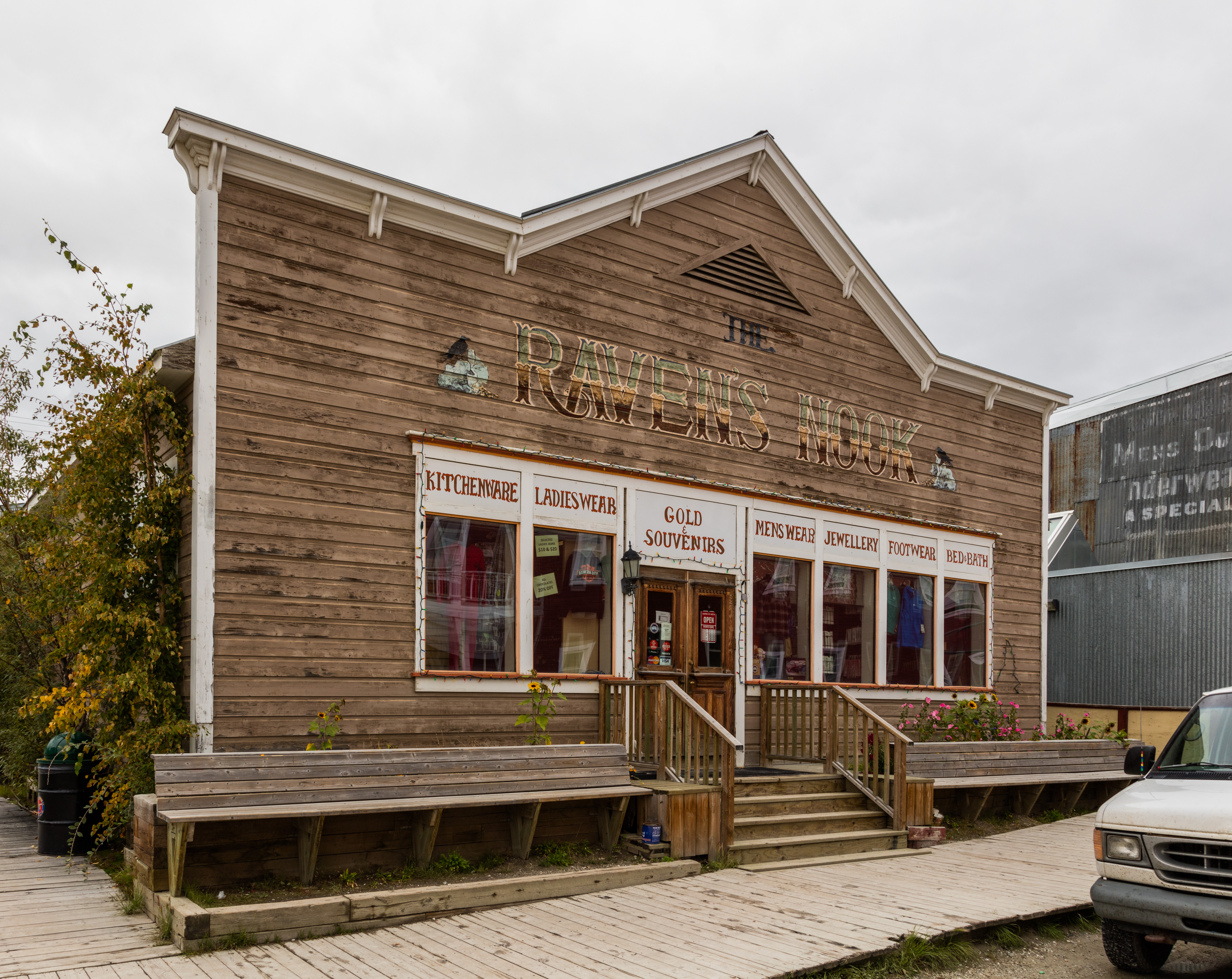 Souvenirs shop, Dawson City, Yukon, Canada